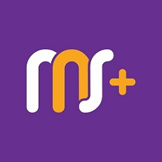 MyNewsStandPlus Logo